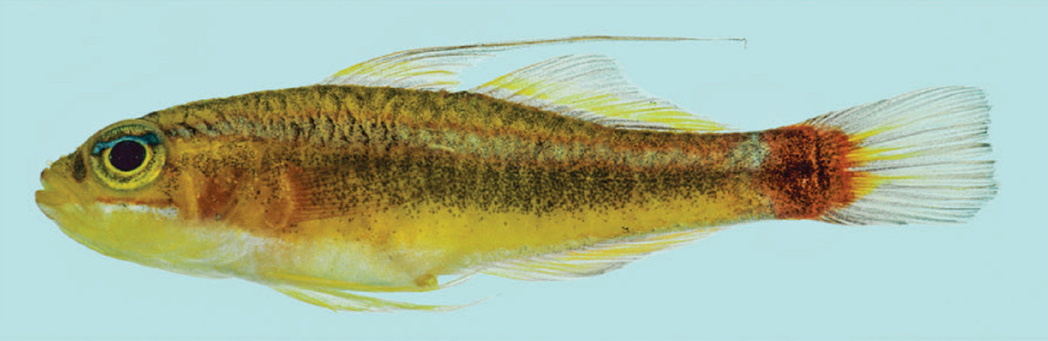 Trimma tevegae male 22.5mm, Koror, Palau